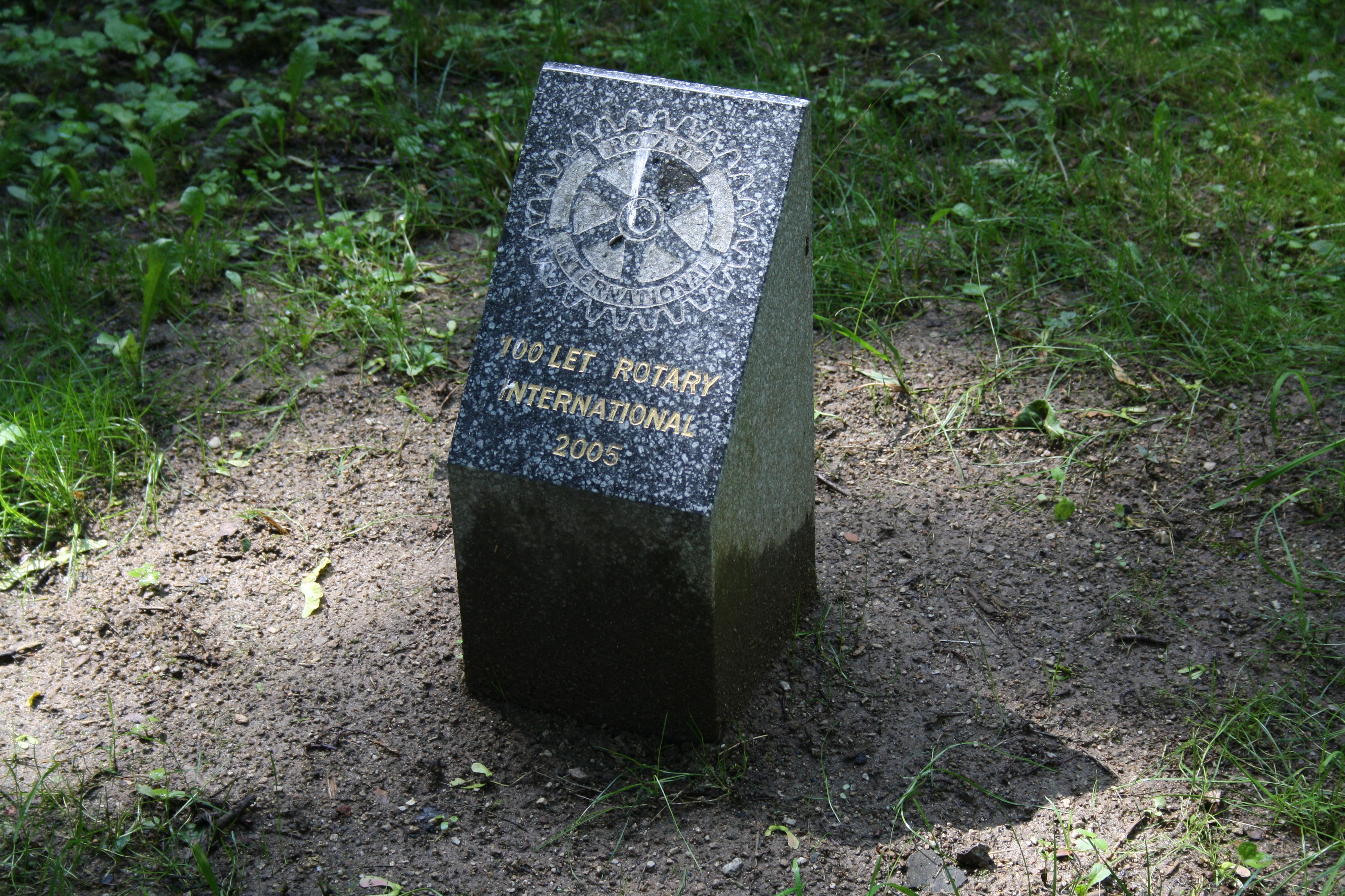 Sculpture to 100 years of Rotary International in Třebíč, Czech Republic.